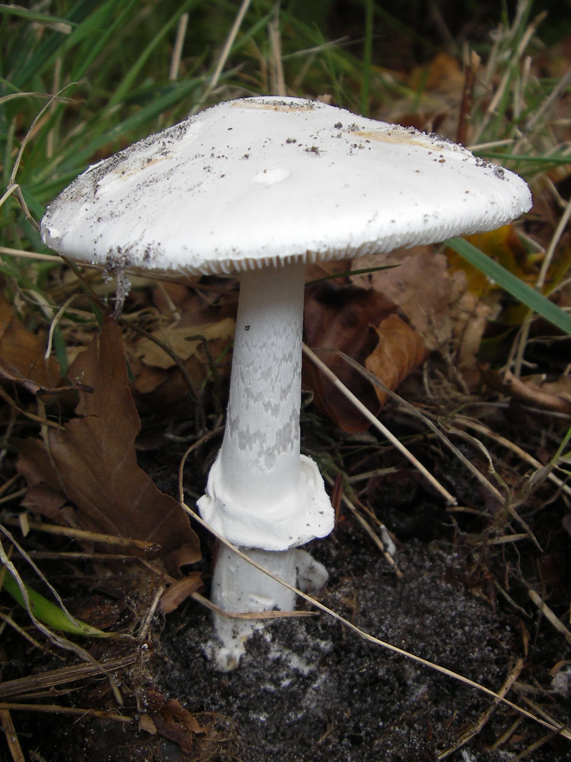 The making of this document was supported by the Community-Budget of Wikimedia Germany.